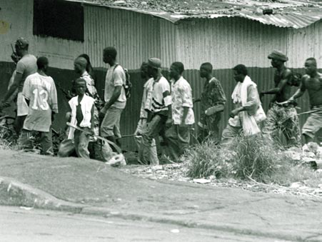 National Patriotic Liberation Front fighters skirt the southern edge of the American Embassy compound in search of United Liberation Movement of Liberia for Democracy militia members.